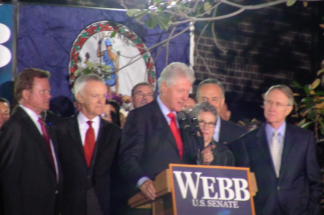 NIGHT BEFORE ELECTION